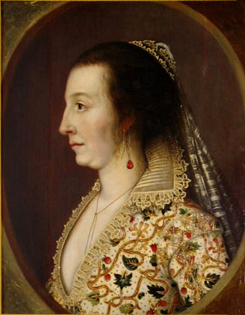 Teresia, Countess of Shirley, painted circa 1611-1613